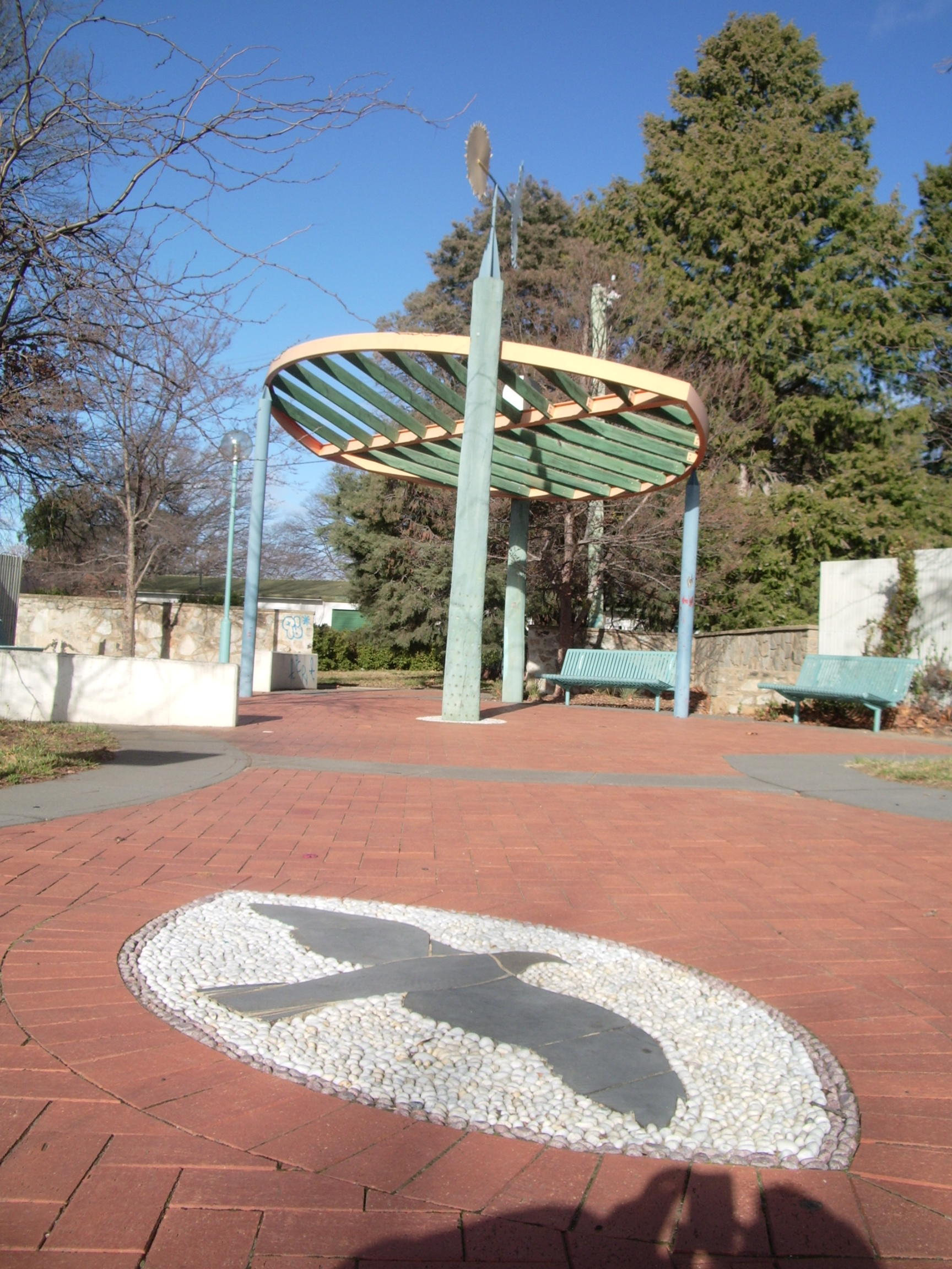 Narrabundah Shops Sculpture. This image was taken by Wildplum69 and he is the copyright holder. The image was created using a camera. The image has been placed in the public domain